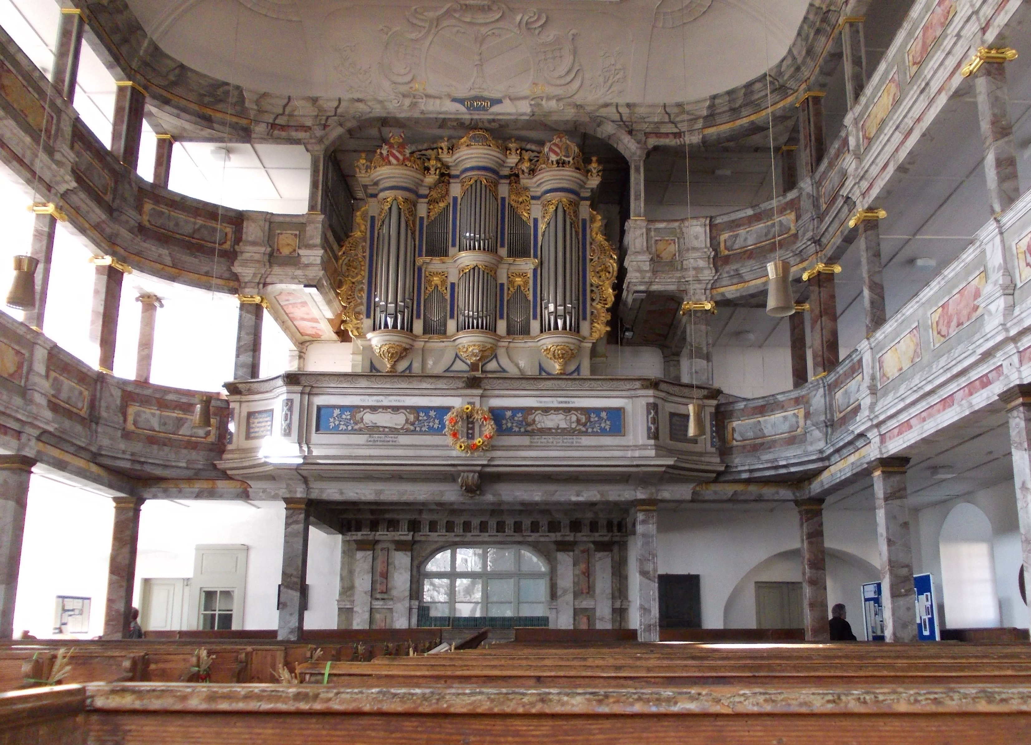 Interior of St. Otto's Church in Wechselburg (Mittelsachsen district, Saxony) with organ